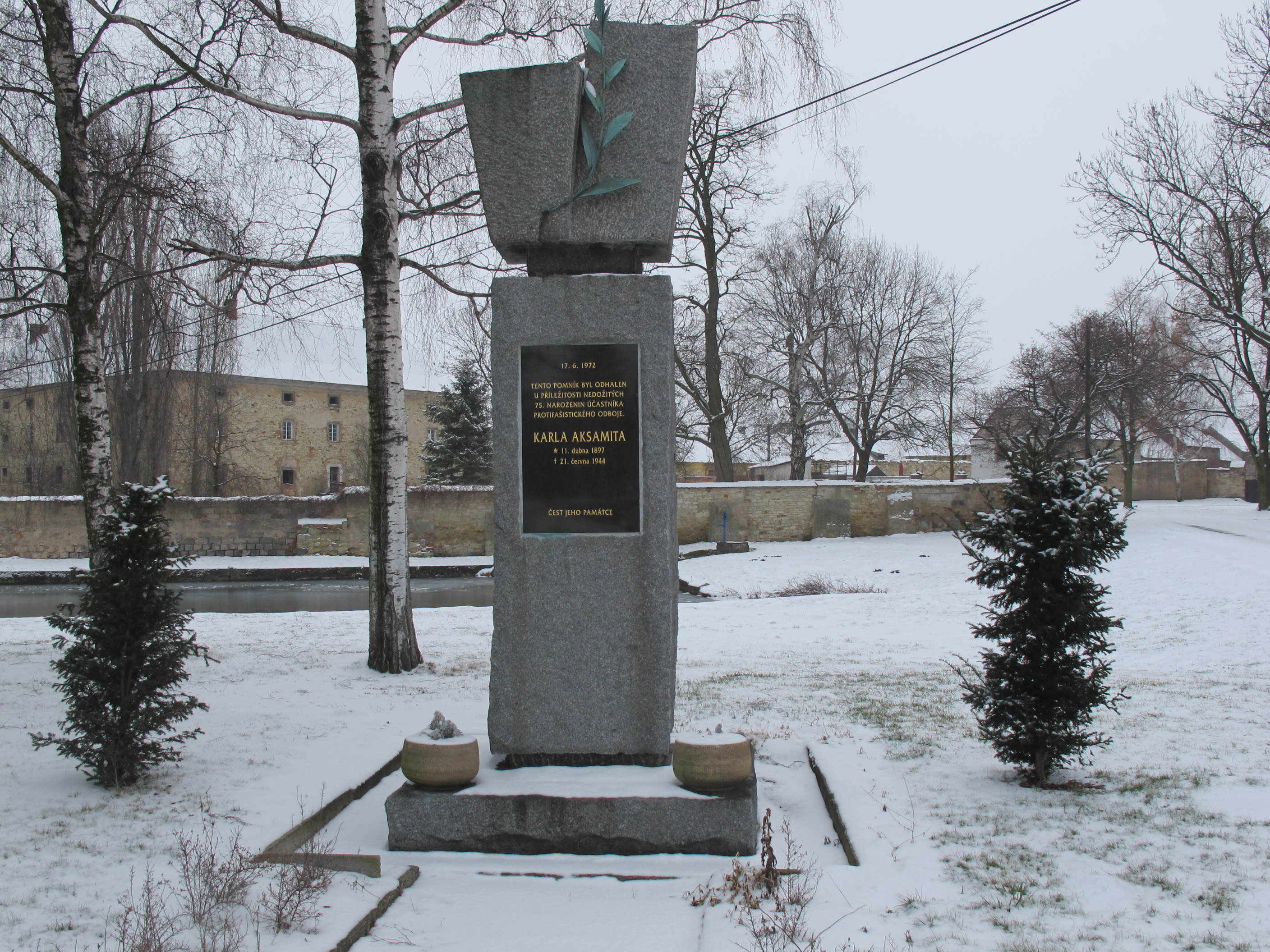 Memorial of Karel Aksamit in Toužetín